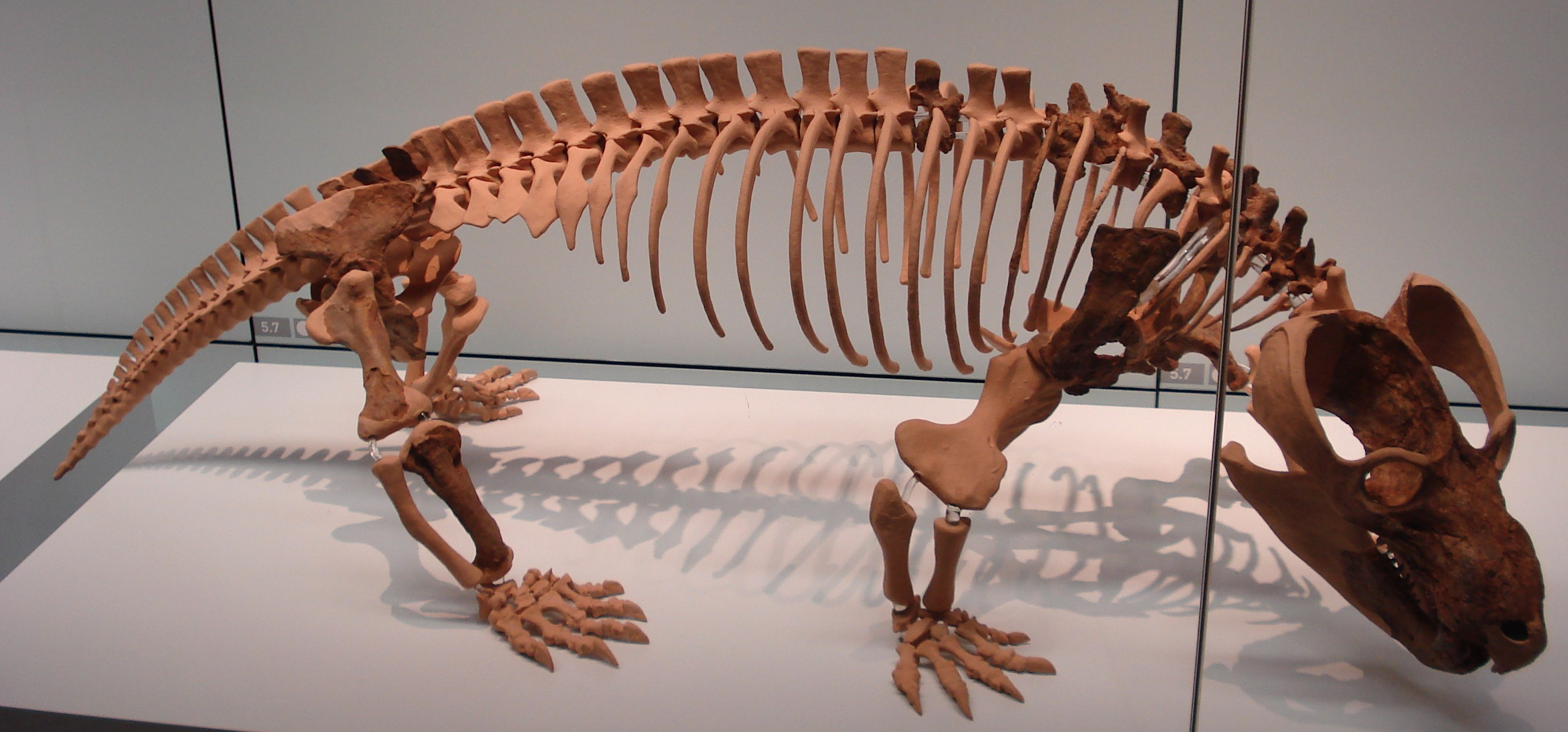 fossil of belesodon